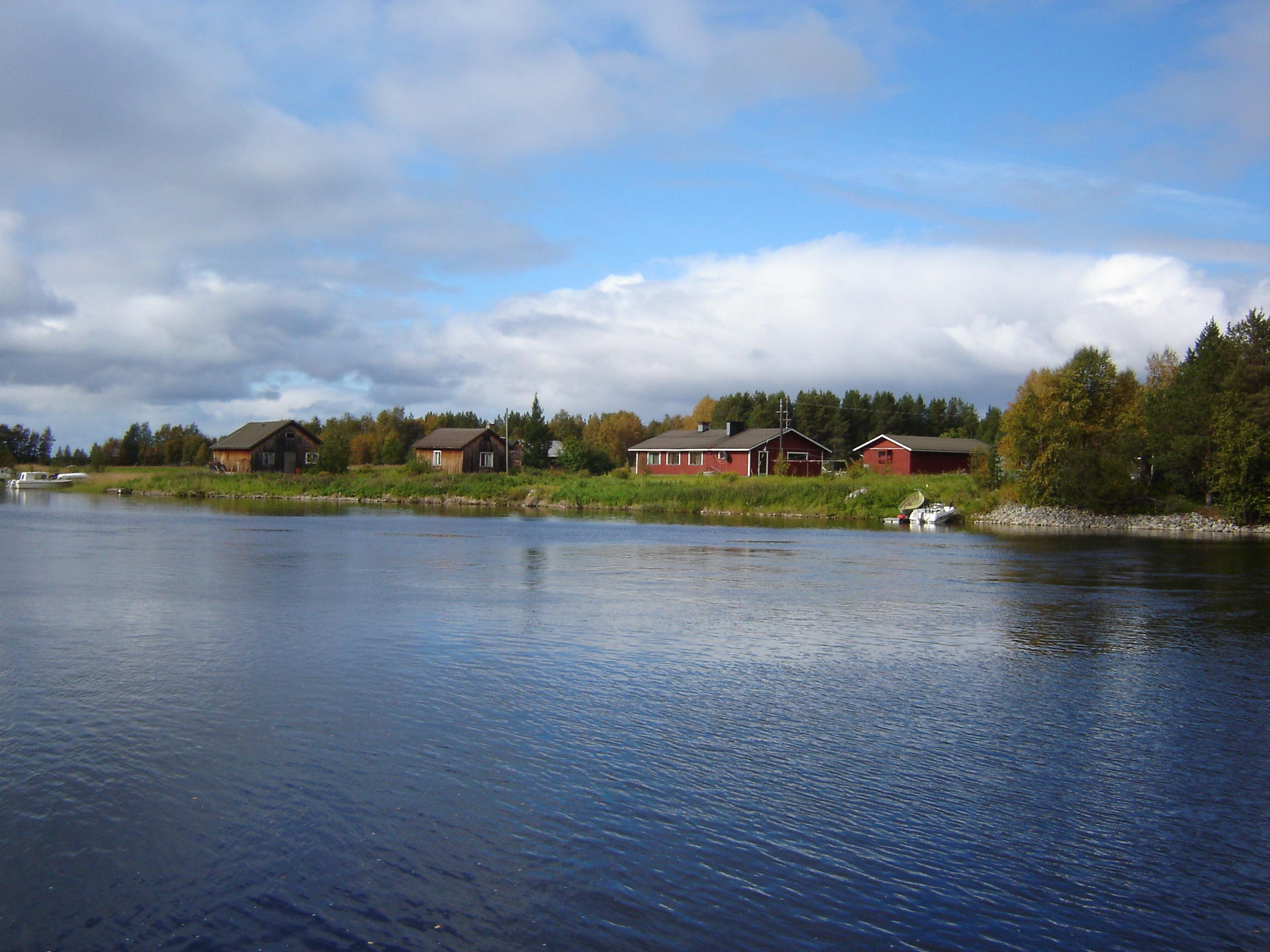 View of the village of Nellim in the municipality of Inari, Finland